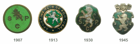 Sporting Crests